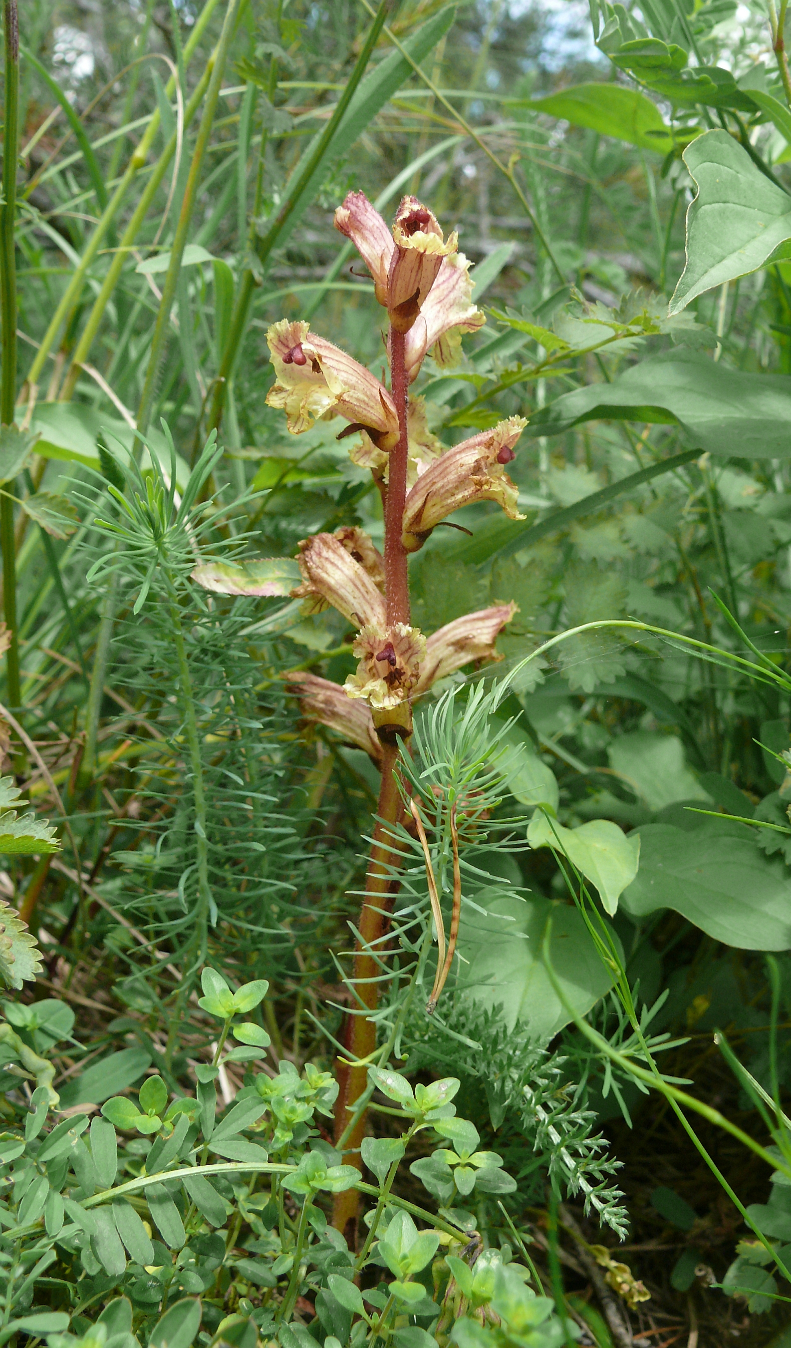 Orobanche alba, Tauberland, Germany